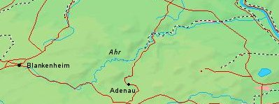 Map of the Ahr river